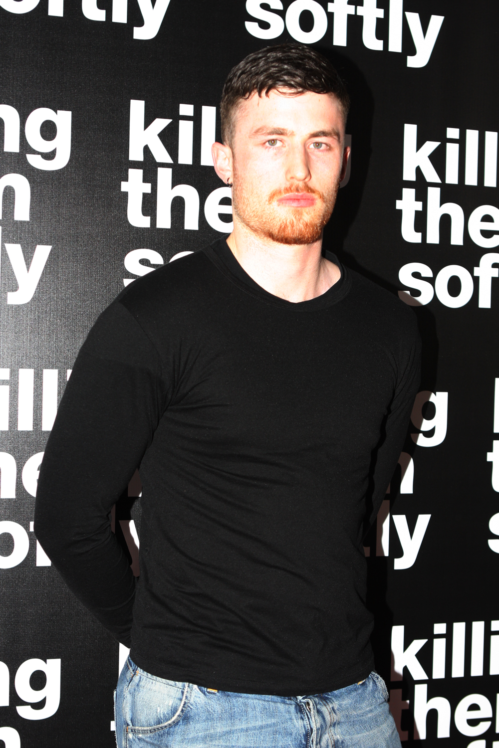 Killing Then Softly movie premiere at Dendy Opera Quays 'Killing Them Softly' enjoyed its Sydney, Australia movie premiere at Dendy Opera Quays this evening. Writer/ director Andrew Dominik (Chopper, The Assassination of Jesse James by the Coward Robert Ford) and star of the film Ben Mendelsohn (The Dark Knight Rises, Animal Kingdom) will attend the Australian premiere of KILLING THEM SOFTLY on Monday 24 September. Other guests attending include Bella Heathcote, Aaron Glenane, Brenna Harding, Elizabeth Blackmore, Felix Willamson, Gillian Armstrong, James Frecheville, John Jarratt Khan Chittenden, Krew Boylan, Leanna Walsman, Mary Coustas, Matthew Nable, Peter Phelps, Sacha Horler, Samara Weaving, Sarah Snook, Sean Keenan and Toby Schmitz. Adapted from George V. Higgins novel and set in New Orleans, Killing Them Softly follows professional enforcer, Jackie Cogan (Pitt), who investigates a heist that occurs during a high stakes, mob-protected poker game. Plot: Jackie Cogan is a professional enforcer who investigates a heist that went down during a mob-protected poker game. Director: Andrew Dominik Writers: Andrew Dominik (screenplay), George V. Higgins (novel) Stars: Brad Pitt, Ray Liotta and Richard Jenkins IN CINEMAS 11 OCTOBER 2012 Websites Killing Them Softly Dendy Cinemas Eva Rinaldi Photography Eva Rinaldi Photography Flickr Music News Australia Nixco